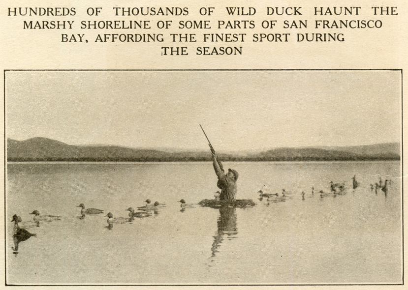 promotional postcard for duckhunting in the san francisco Bay area, 1915. caption reads: "Hundreds of thousands of wild duck haunt the marshy shoreline of some parts of San Francisco Bay, affording the finest sport during the season." Published by the Publicity Commissioners of Alameda County, 1915.